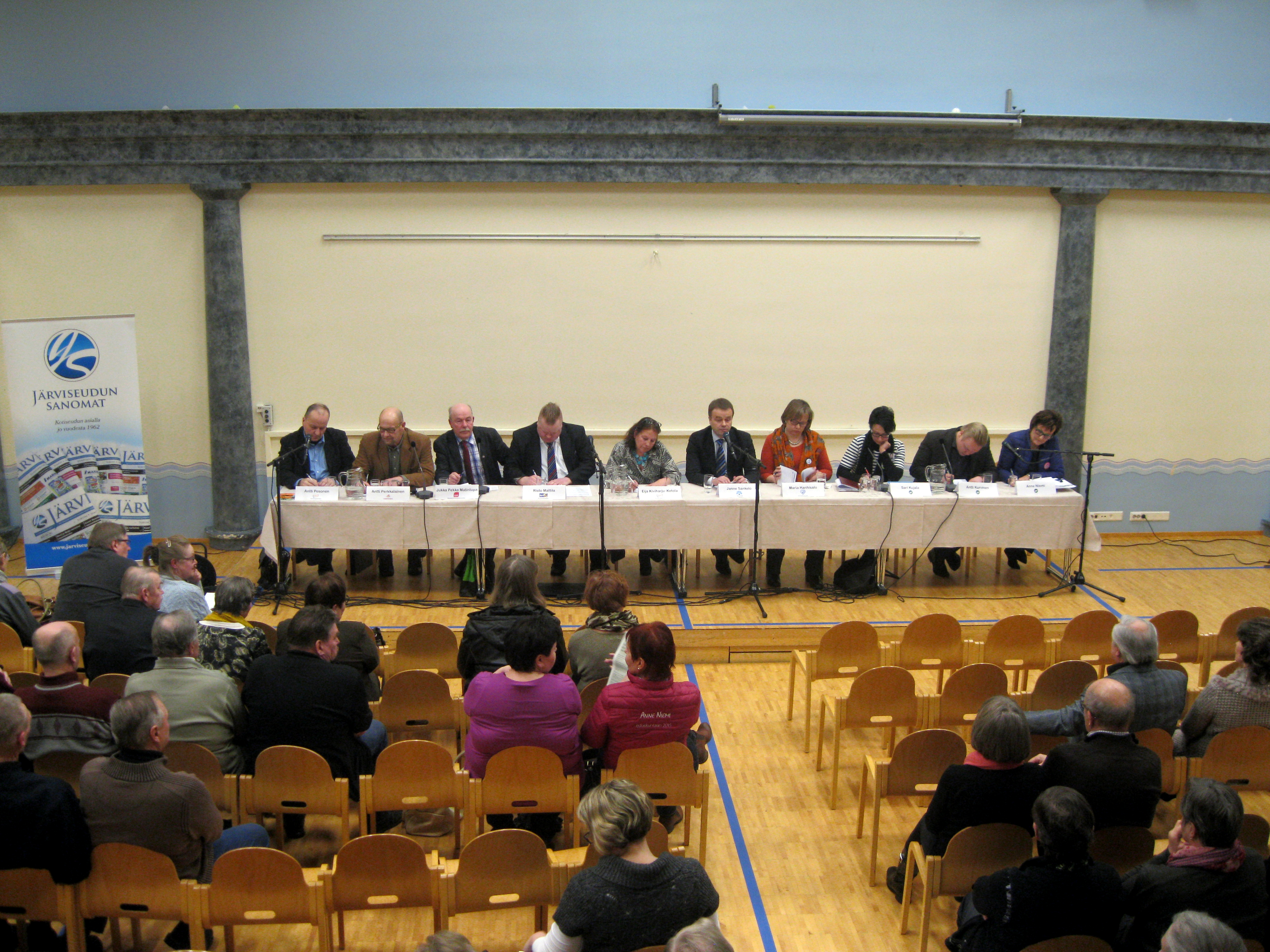 Finnish parliamentary election 2015 debate in Lappajärvi.